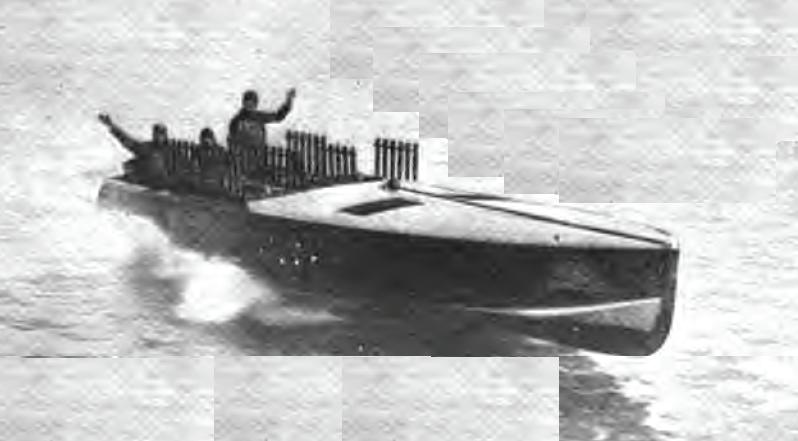 Photograph of the Miss America 2, winner of the 1921 Harmsworth Trophy